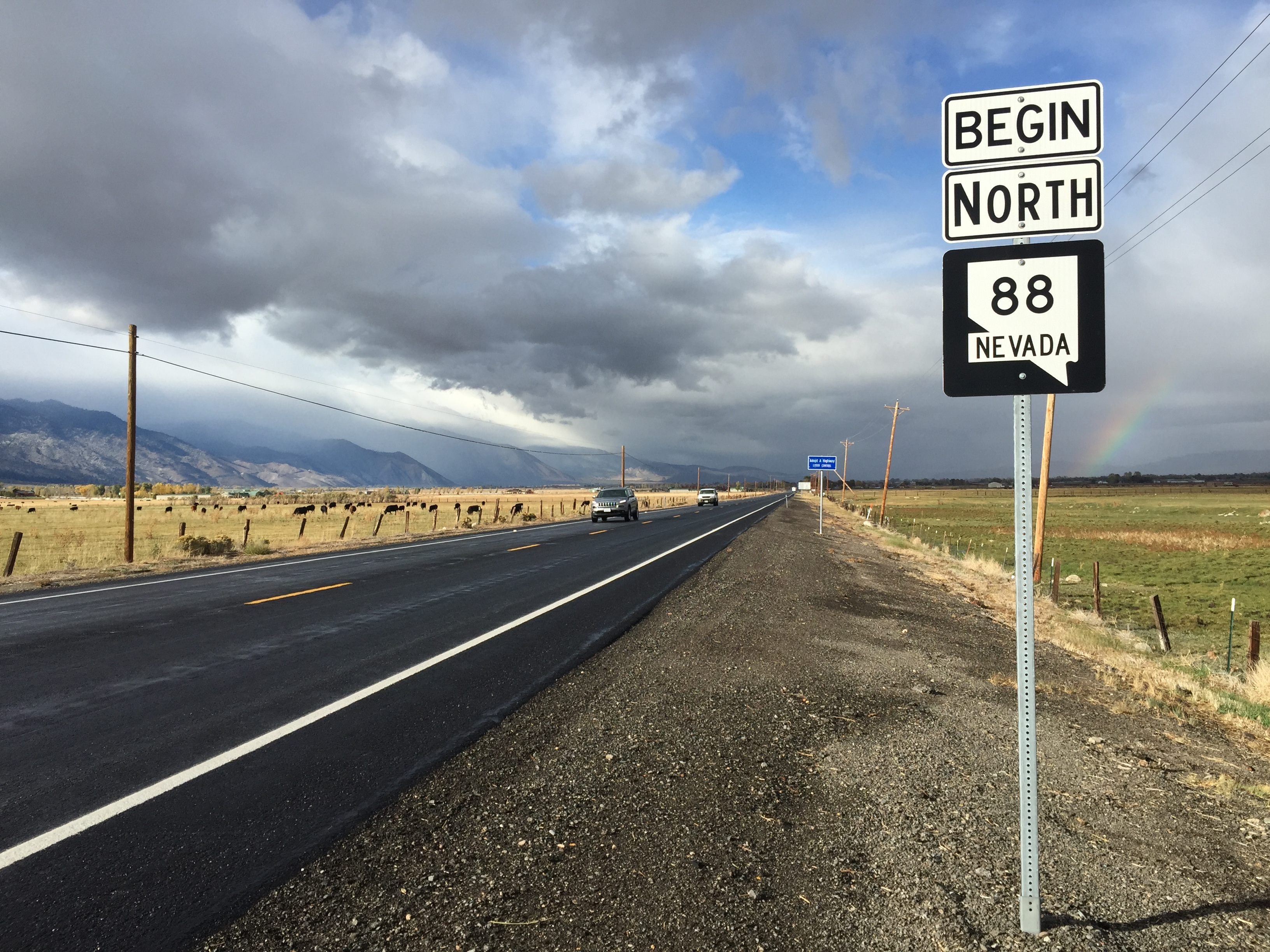 View north from the south end of Nevada State Route 88 (Woodfords Road) in Douglas County, Nevada